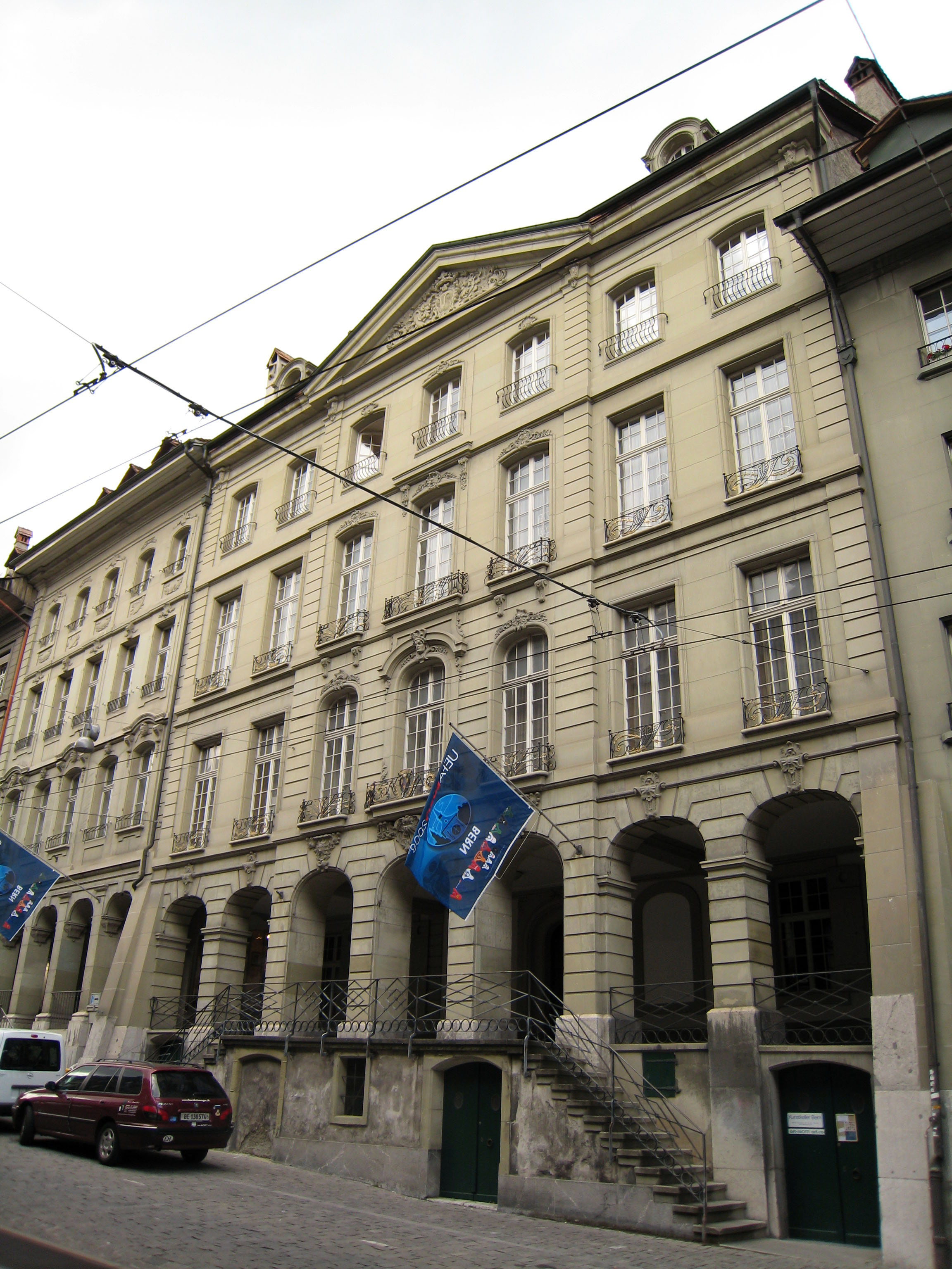 Gerechtigkeitsgasse 40, Berne (Switzerland). Berne's most expansive urban palais; it is exemplary for the insertion of a French hôtel in the medieval cityscape. It was built in 1743 by Albrecht Türler for Alexander von Wattenwyl and was the site of the surrender of the Helvetic government to French troops on 18 September 1802.